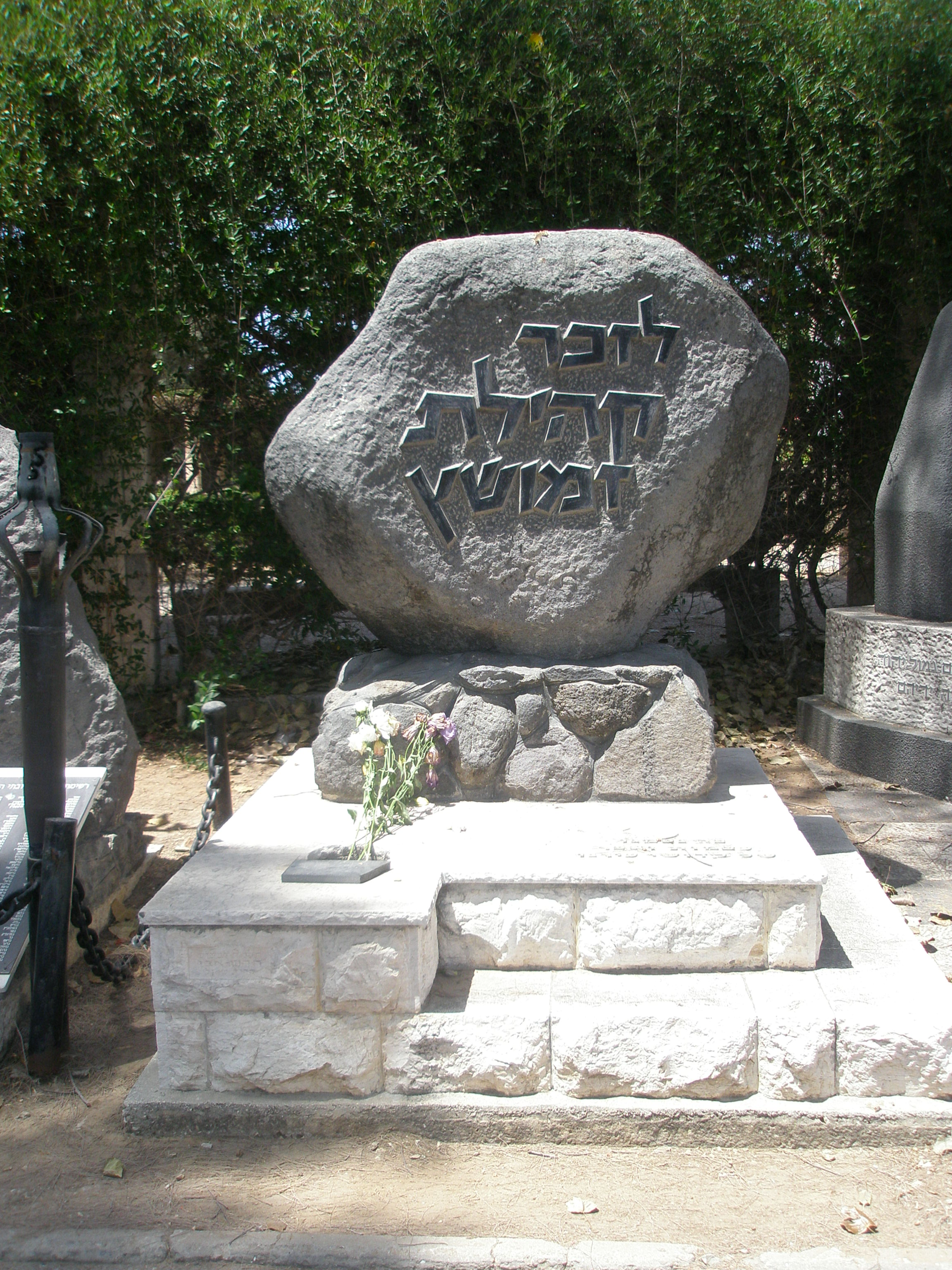 Zamość Jewery memorial at Kiriat Shaul cemetery